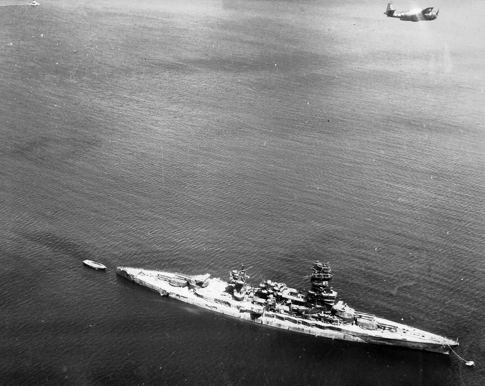 A U.S. Navy Grumman TBM-3 Avenger from Torpedo Squadron VT-27 from the aircraft carrier USS Independence (CVL-22) flies over the Japanese battleship Nagato at Yokosuka Naval Base, probably after the Japanese surrender.